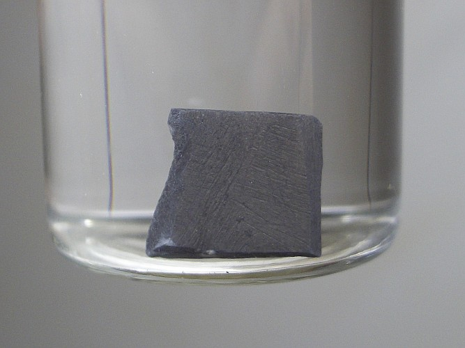 A piece of barium under mineral oil